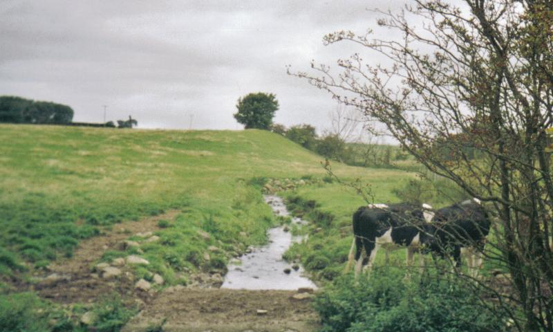 The Brackenburn at Alton Bridge after it has joined with the Garrier and Lochrig Burns. Little Alton 'cothouse' is nearby and this could be the site of the Lambrochton Bridge mentioned by Pont in the 17th. Century. This site is near Kilamurs in Ayrshire. 2006. Hillhead Farm and wood, formerly called Cranshaw is in the background.